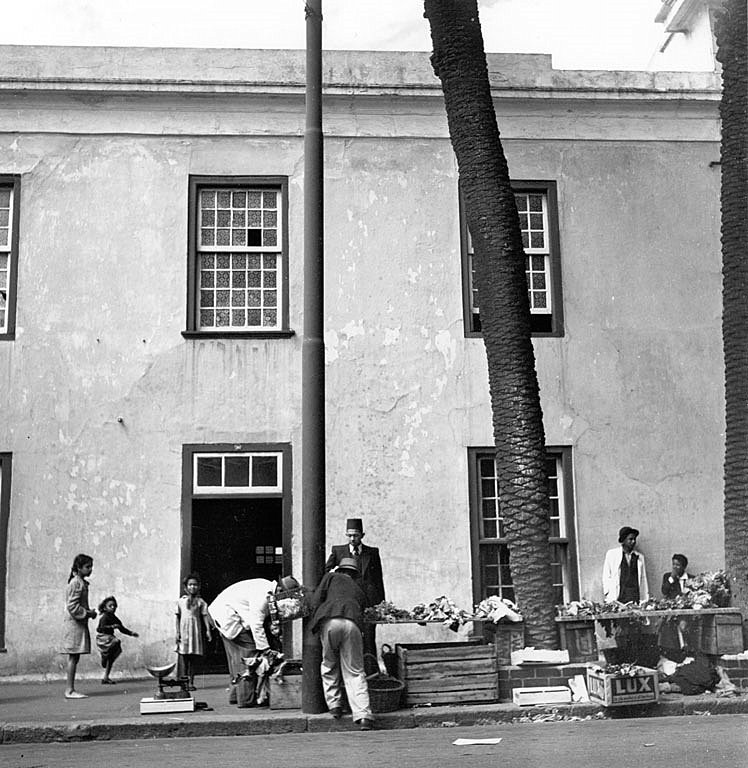 Palm Tree Mosque with fruit vendors on the pavement.